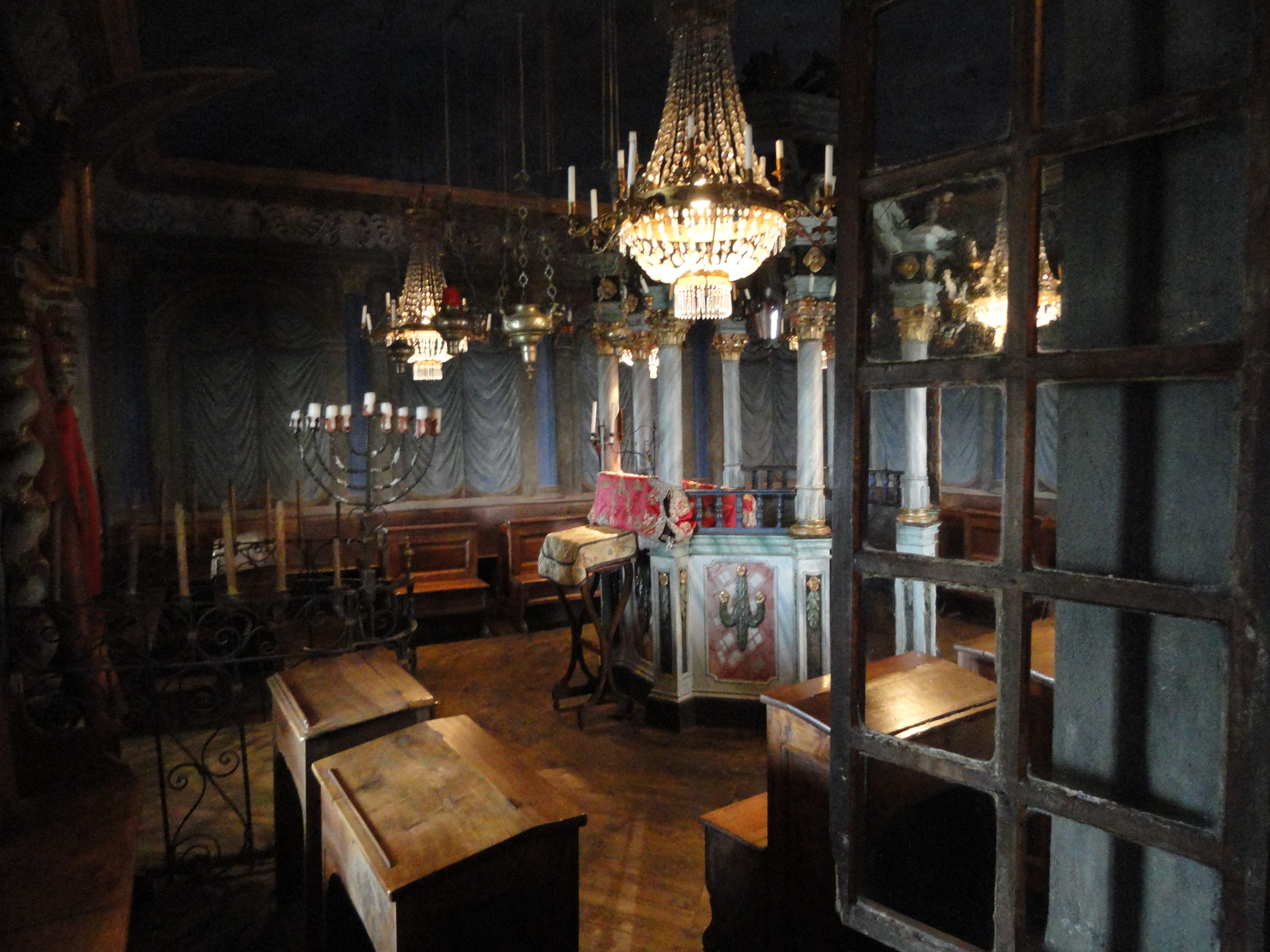 Synagogue of Mondovì (Piedmont, Italy): The prayer room seen from the women's gallery